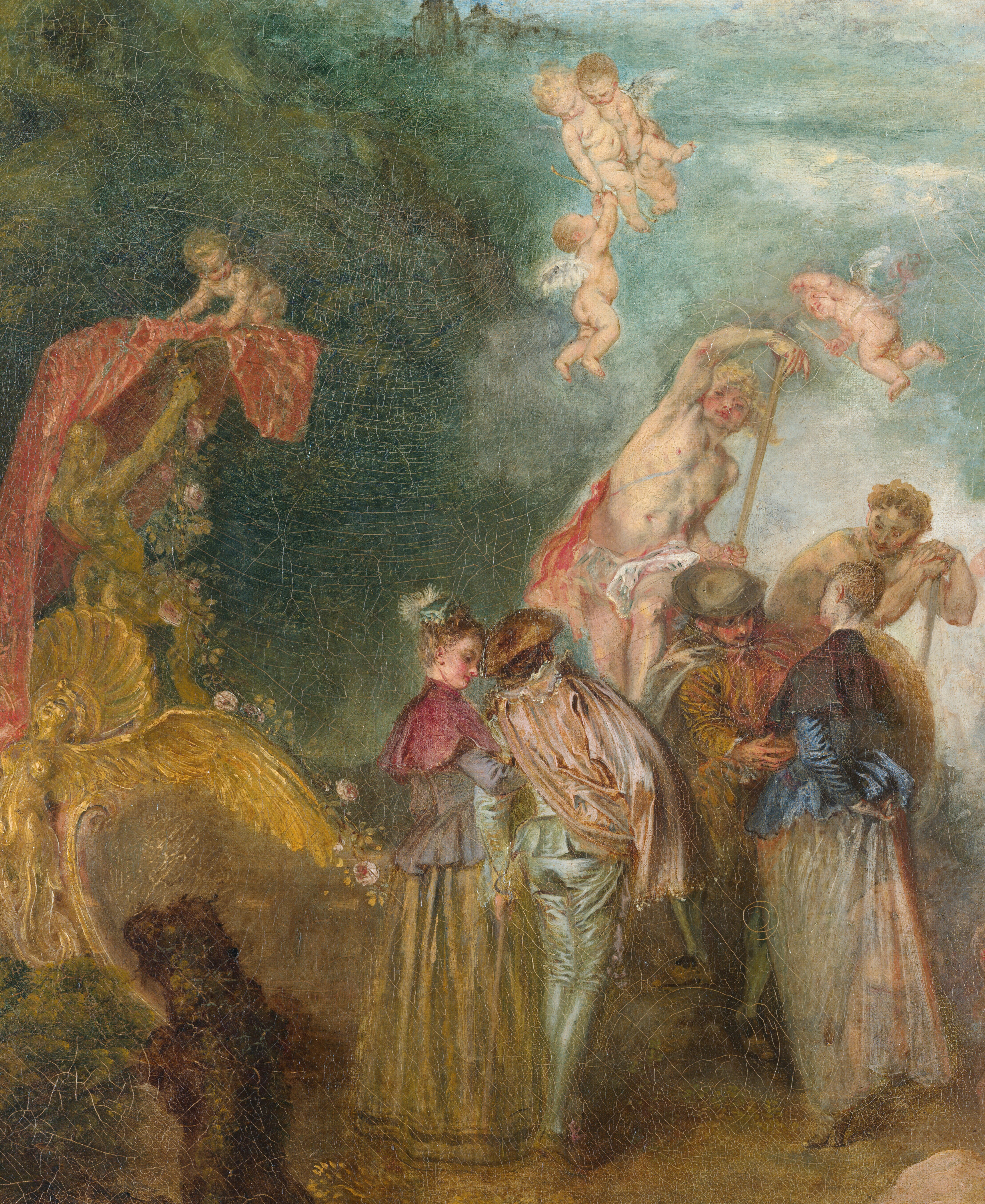 Pilgrimage on the Isle of Cythera (1717)